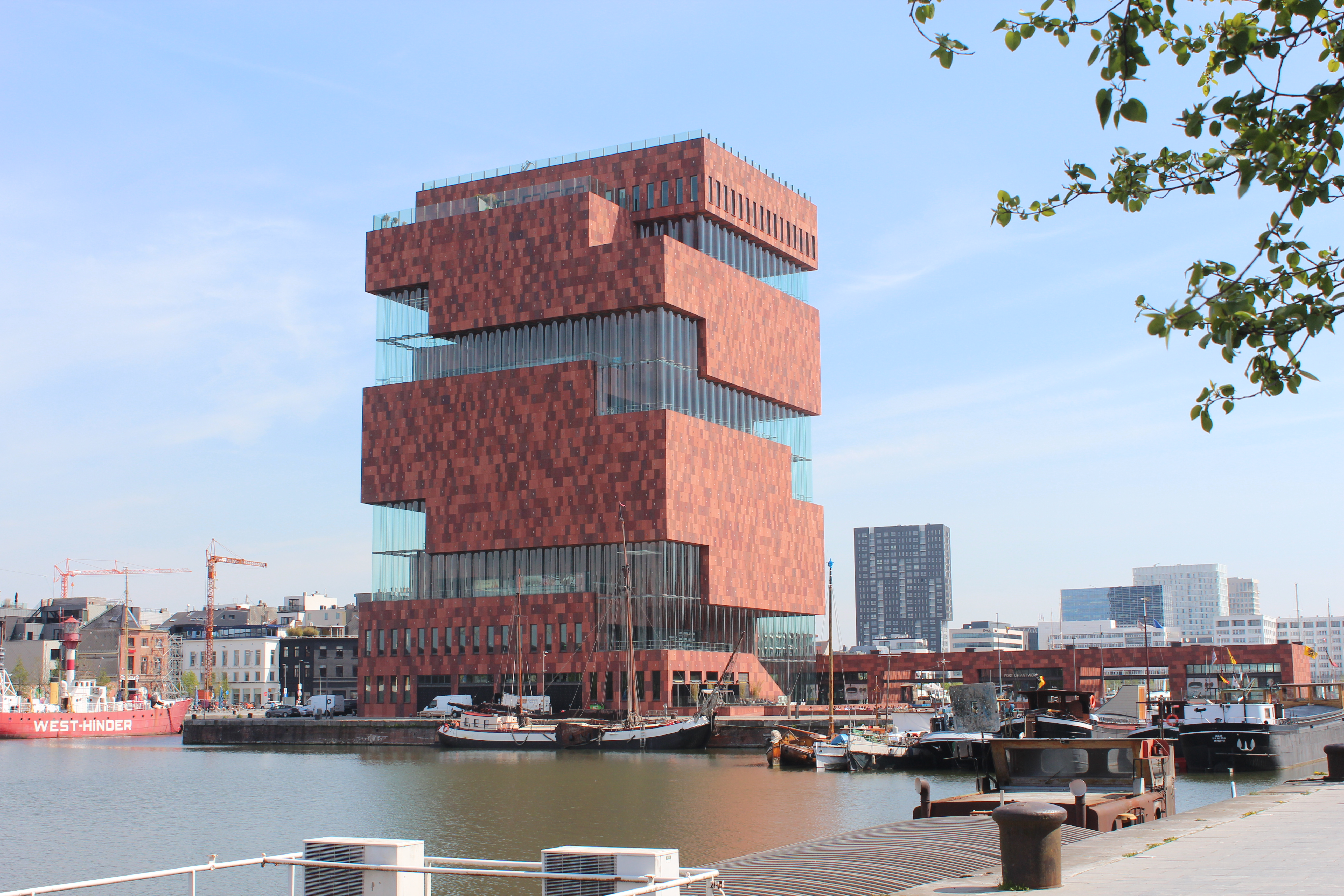 MAS (Museum aan de Stroom) in Antwerpen. Now on Wikimedia thaks to new Belgian law allowing Freedom of Panorama.